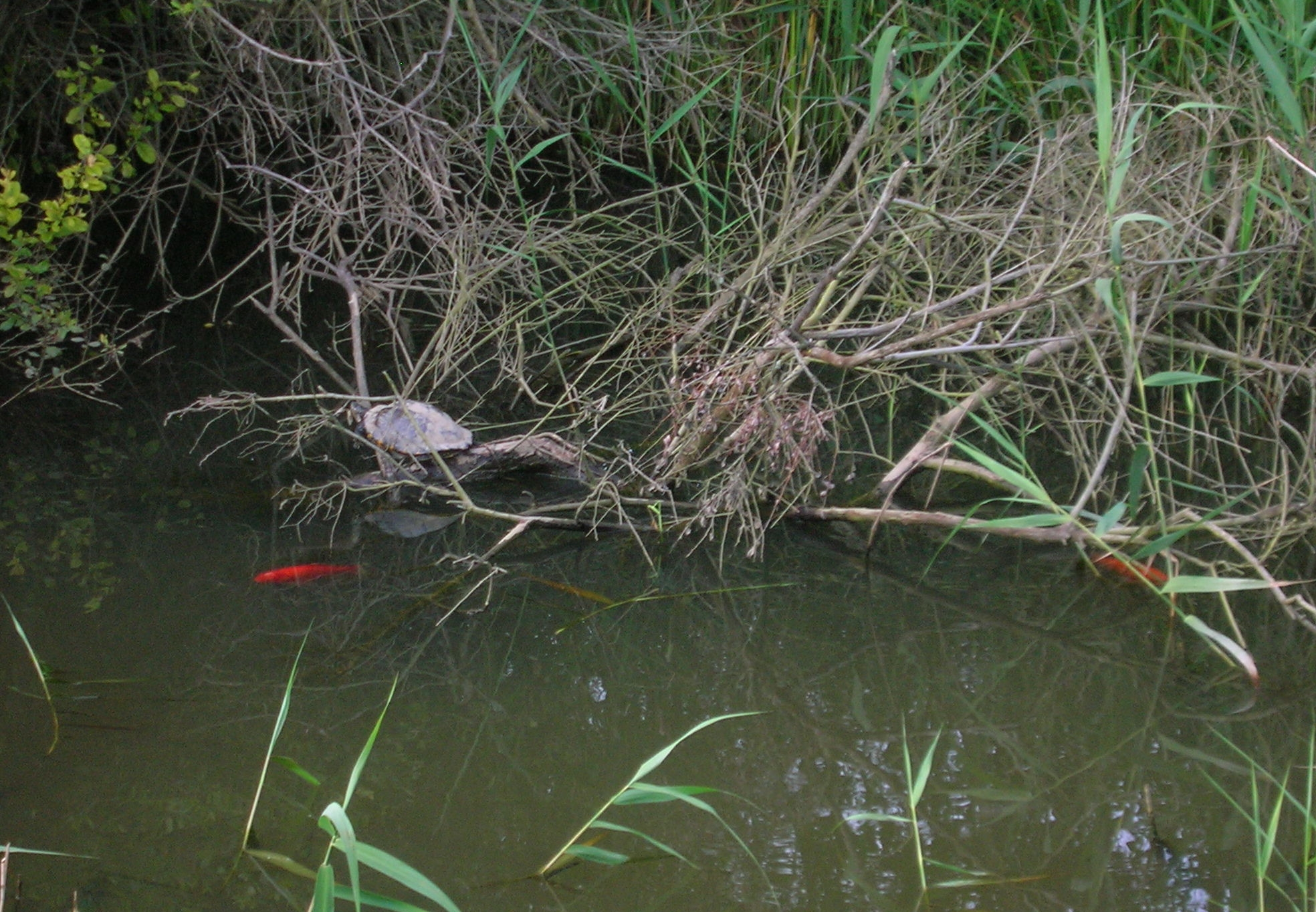 Slider Turtle (Trachemys scripta) at Bolue wetland, in Getxo, Biscay